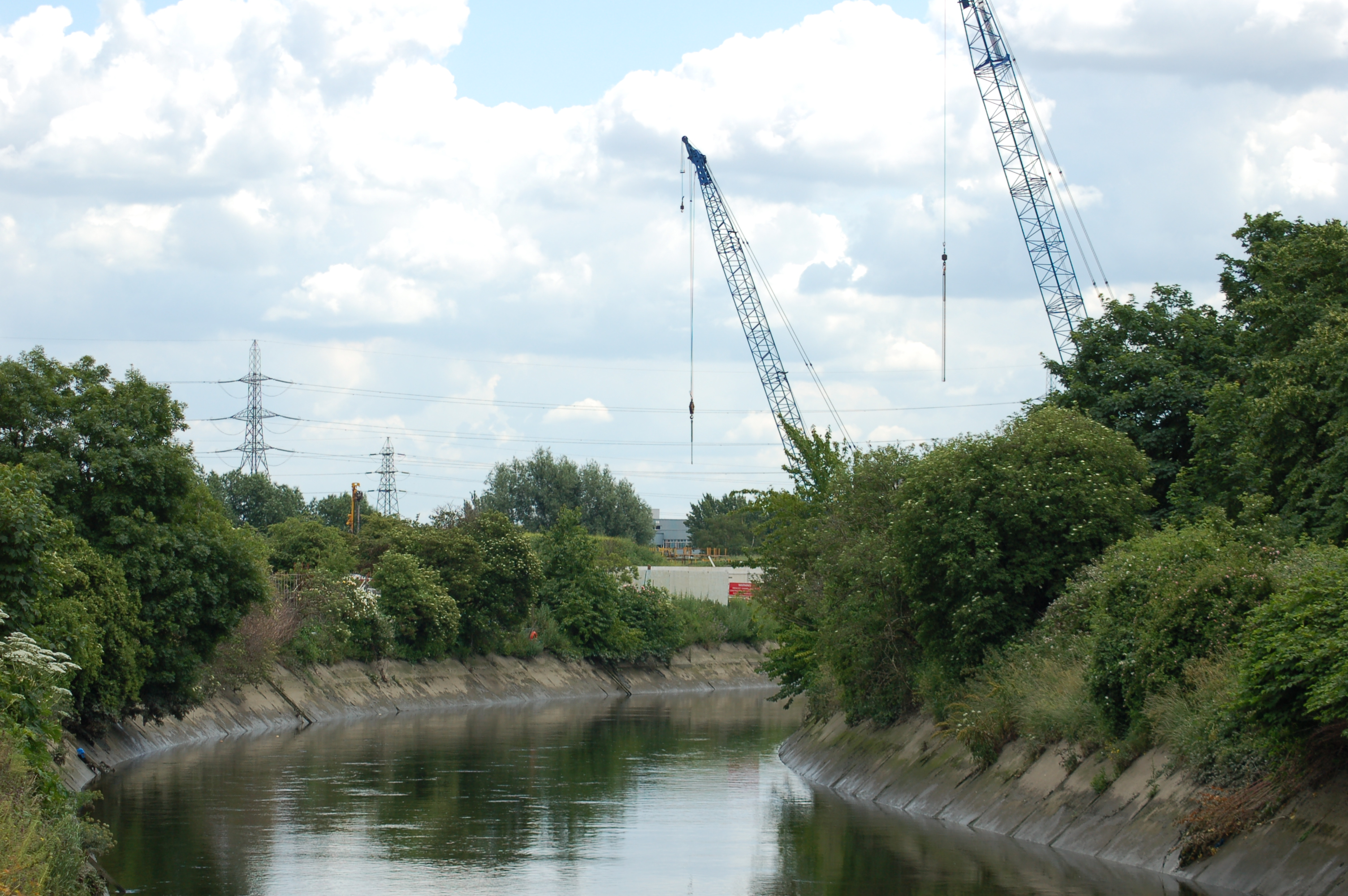 Three Mills Lock (under construction) in the Prescott Channel.